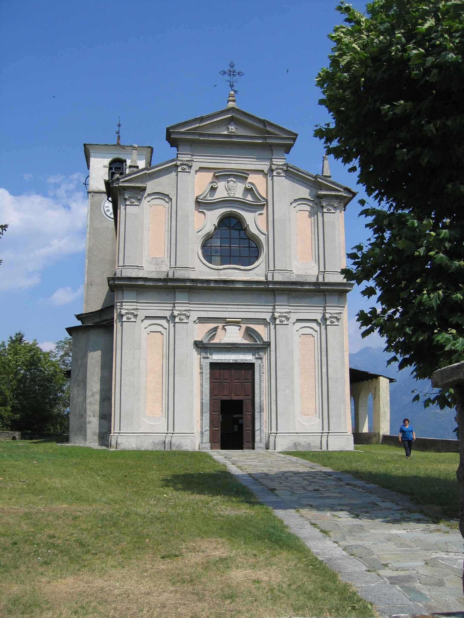 The Church of Civo